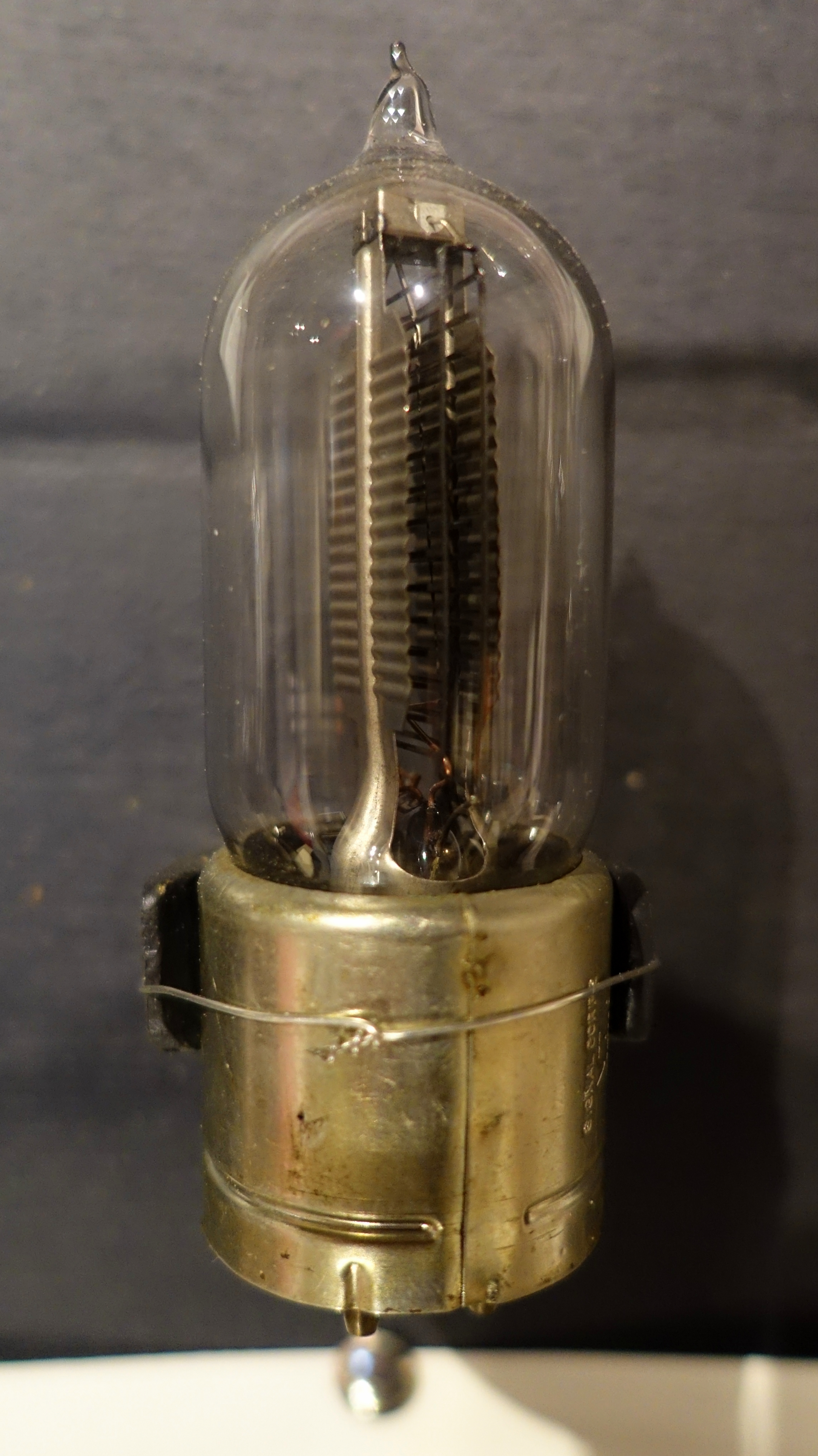 Exhibit in the National Electronics Museum, 1745 West Nursery Road, Linthicum, Maryland, USA. All items in this museum are unclassified. The museum permitted photography without restriction.